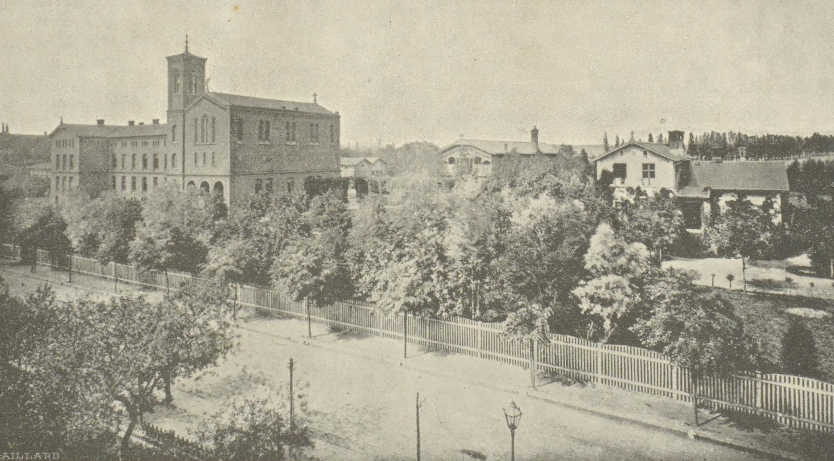 View of Diakonissen- und Krankenhaus Bethanien in Neu Torney, Stettin